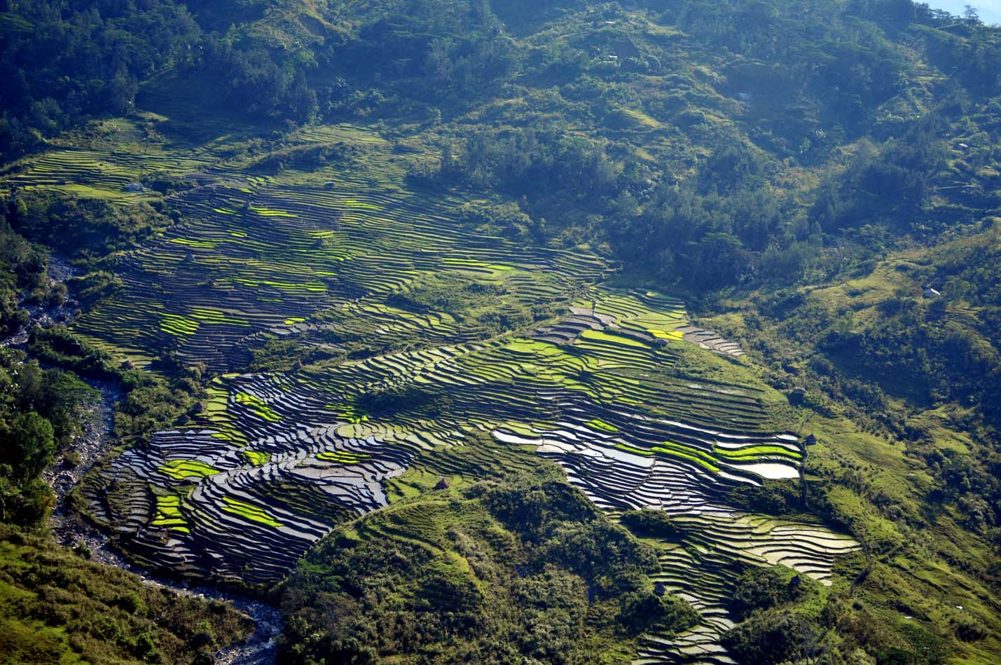 Rice paddies in Dili